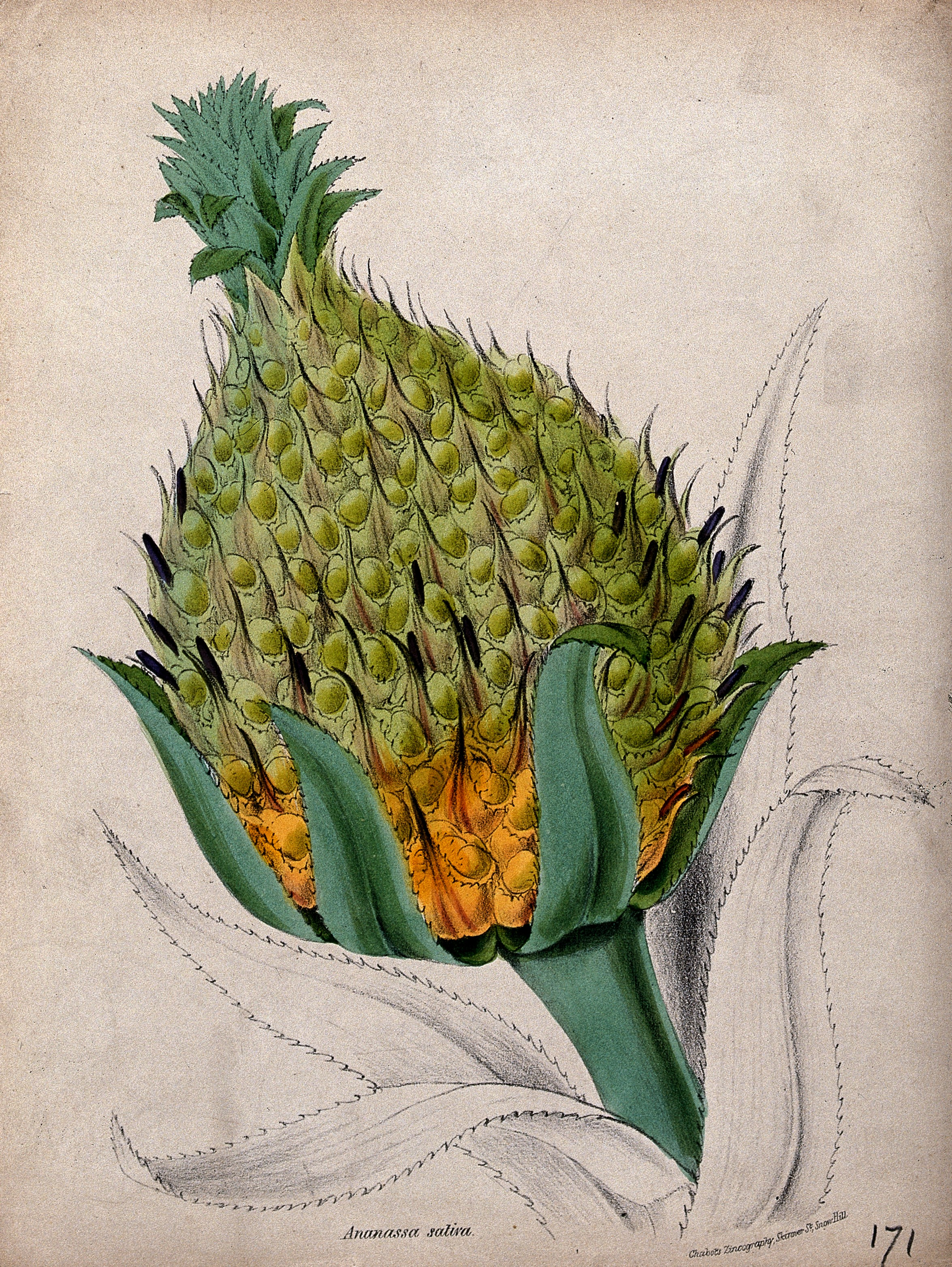 Pineapple (Ananas comosus): large fruit on the end of a leafy stem. Coloured zincograph after M. A. Burnett, c. 1842. Iconographic Collections Keywords: M.A. Burnett